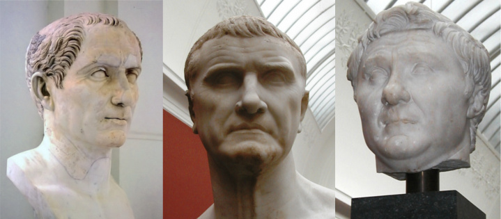 Arrangement of busts of Gaius Julius Caesar, Marcus Licinius Crassus and Gnaeus Pompeius Magnus (Pompey the Great); the bust of Caesar is located in the National Archaeological Museum of Naples, Italy whereas the busts of Crassus and Pompey are located in the Ny Carlsberg Glyptotek, Copenhagen. See the source links within Wikimedia commons for further descriptions of the busts.